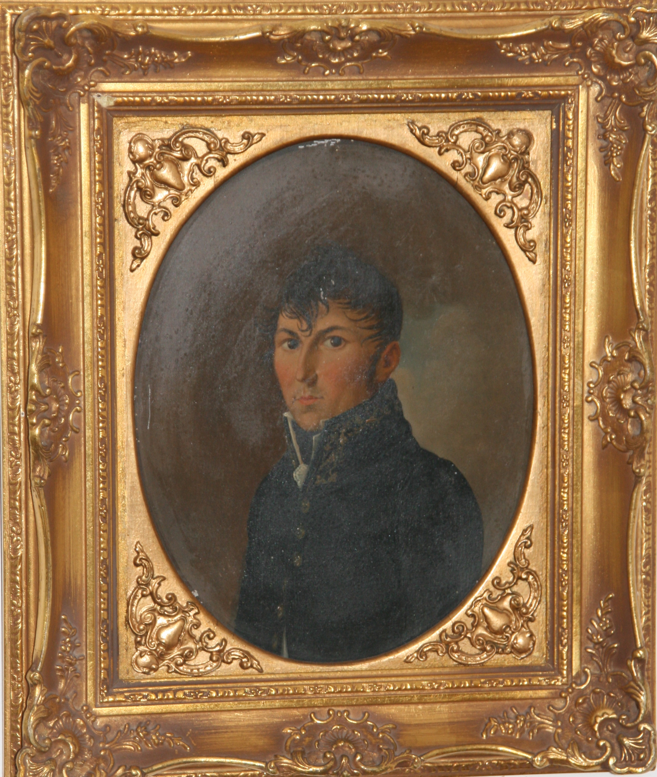 Karl Leopold Fabian